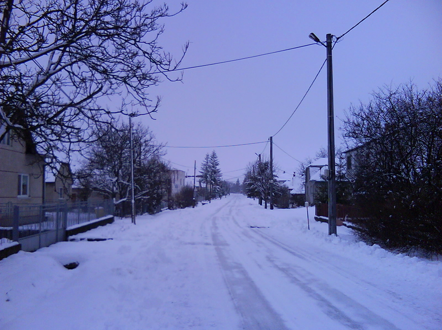 Street in Borough of Albinov (north view), Town of Sečovce.